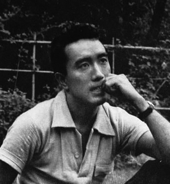 Japanese Author Yukio Mishima (三島由紀夫)